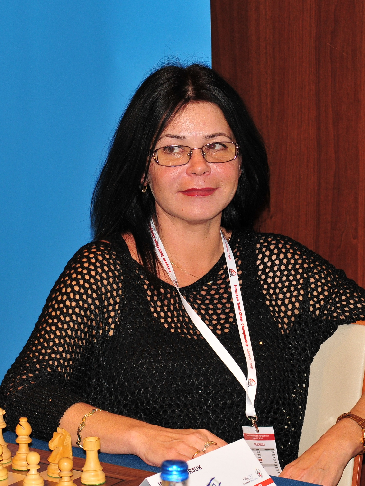 IM Angela Borsuk, European Chess Team Championship Warsaw 2013